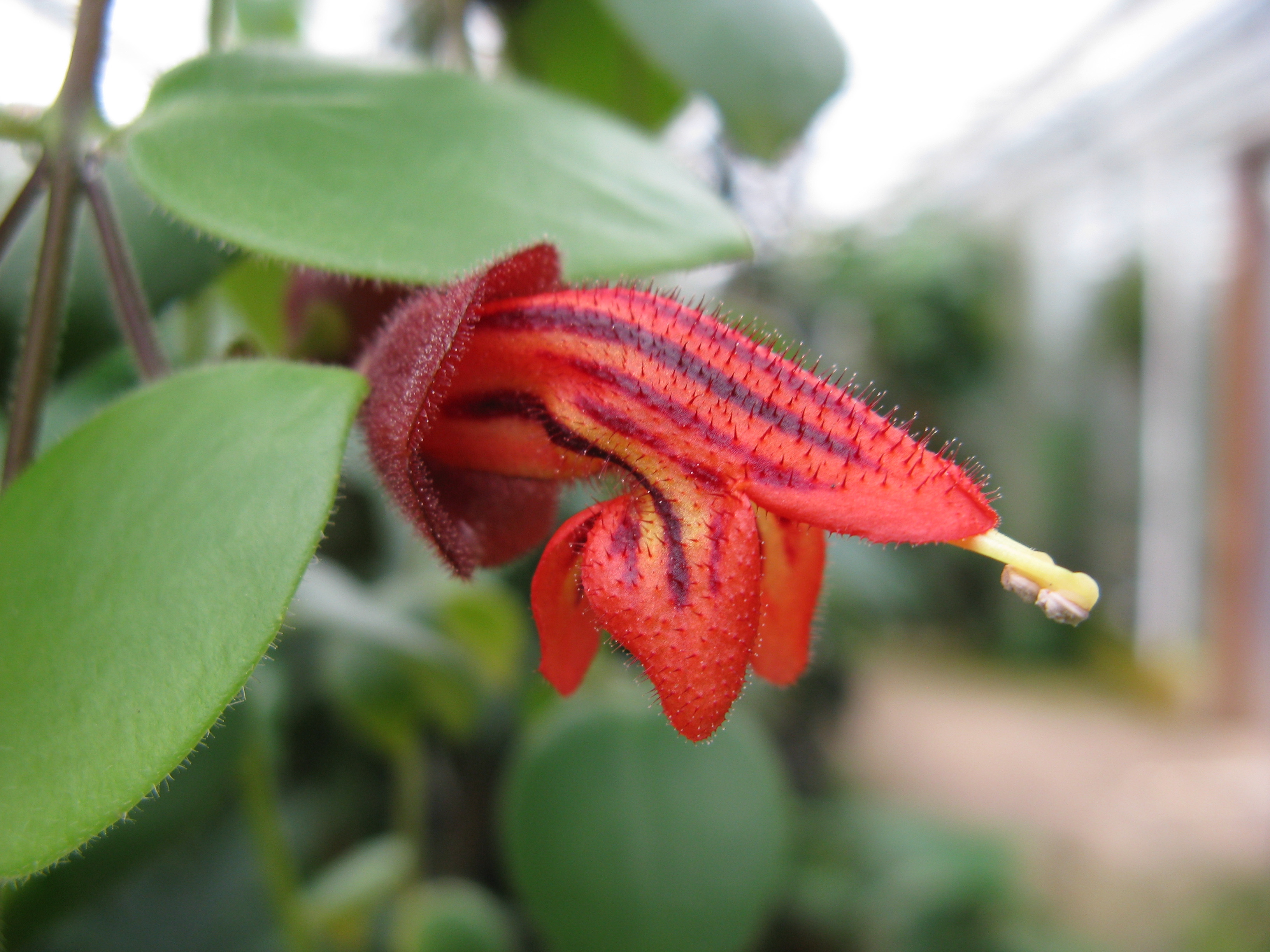 flower